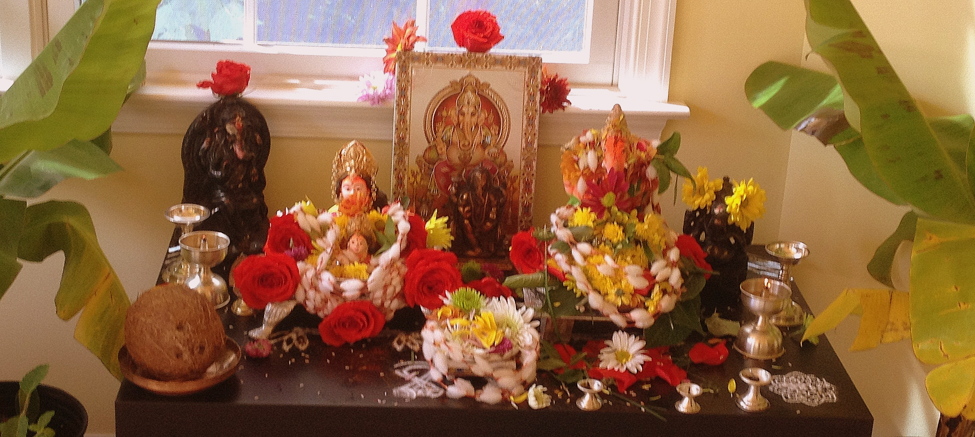 गोवरी गणेश महोत्सव